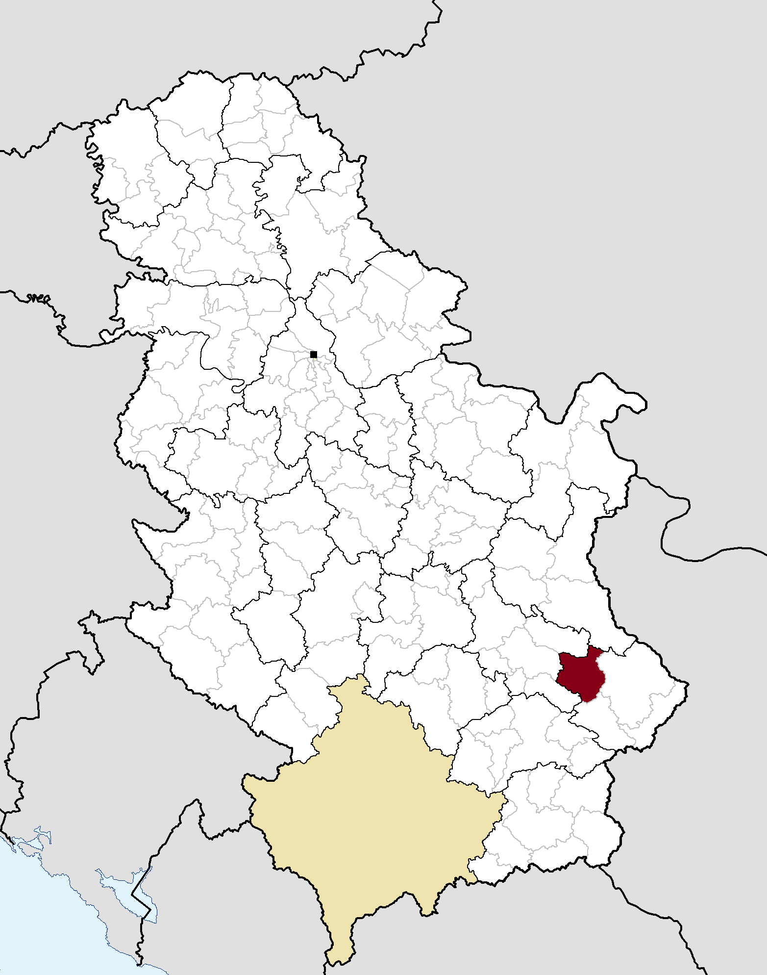 Municipal location in Serbia